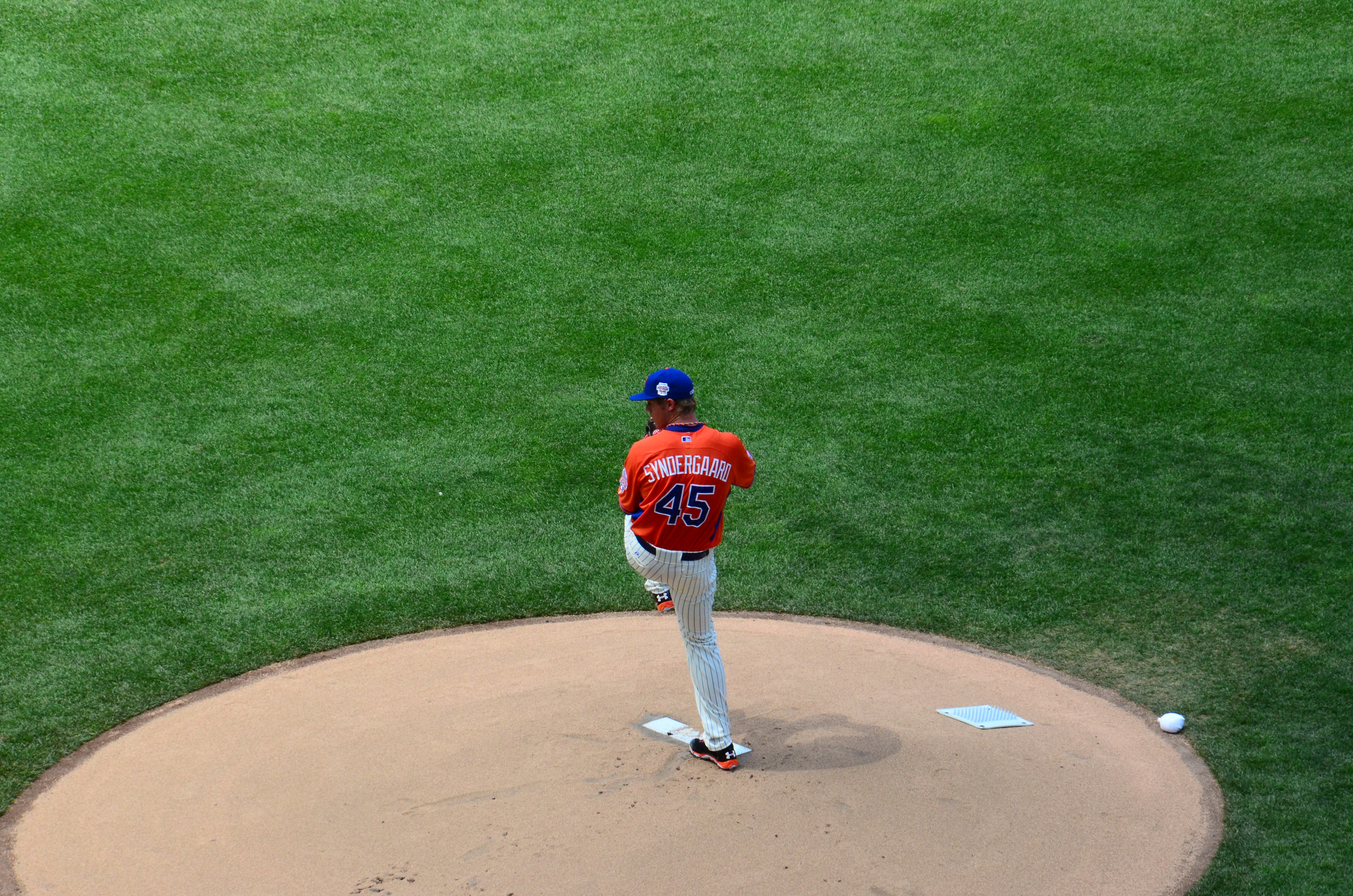 Noah Syndergaard - July 2013